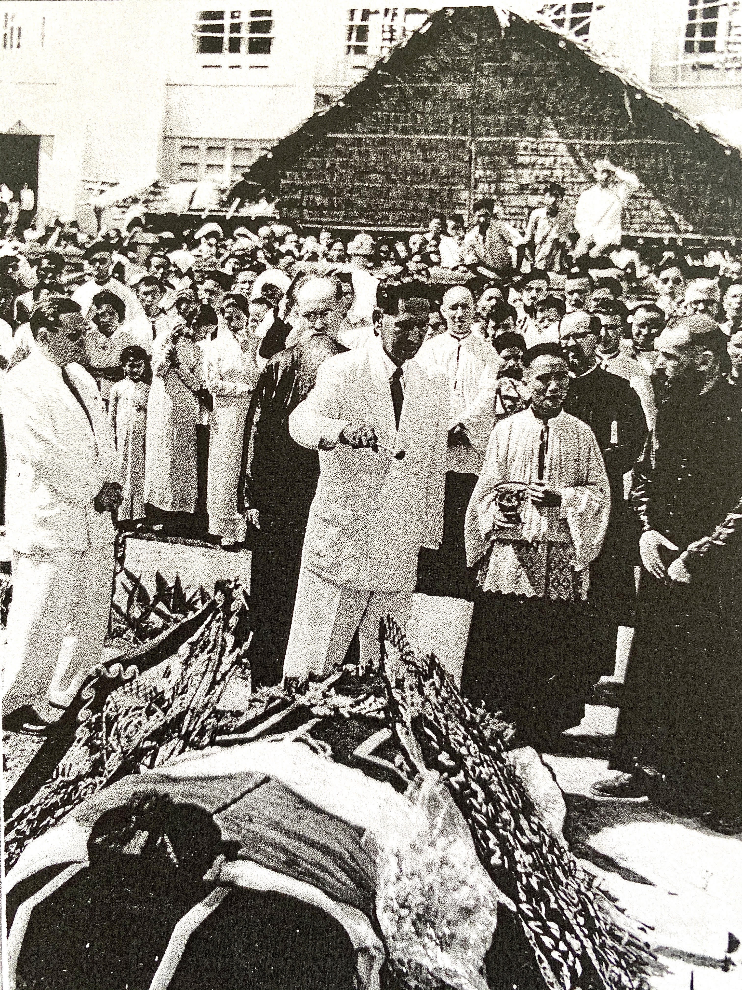 During the official farewell to the corpse of Bishop Chabalier at this funeral in Phonom Penh, the French ambassdor Gorce and the next apostolic vicar Monsignor Raballand are in attendance.